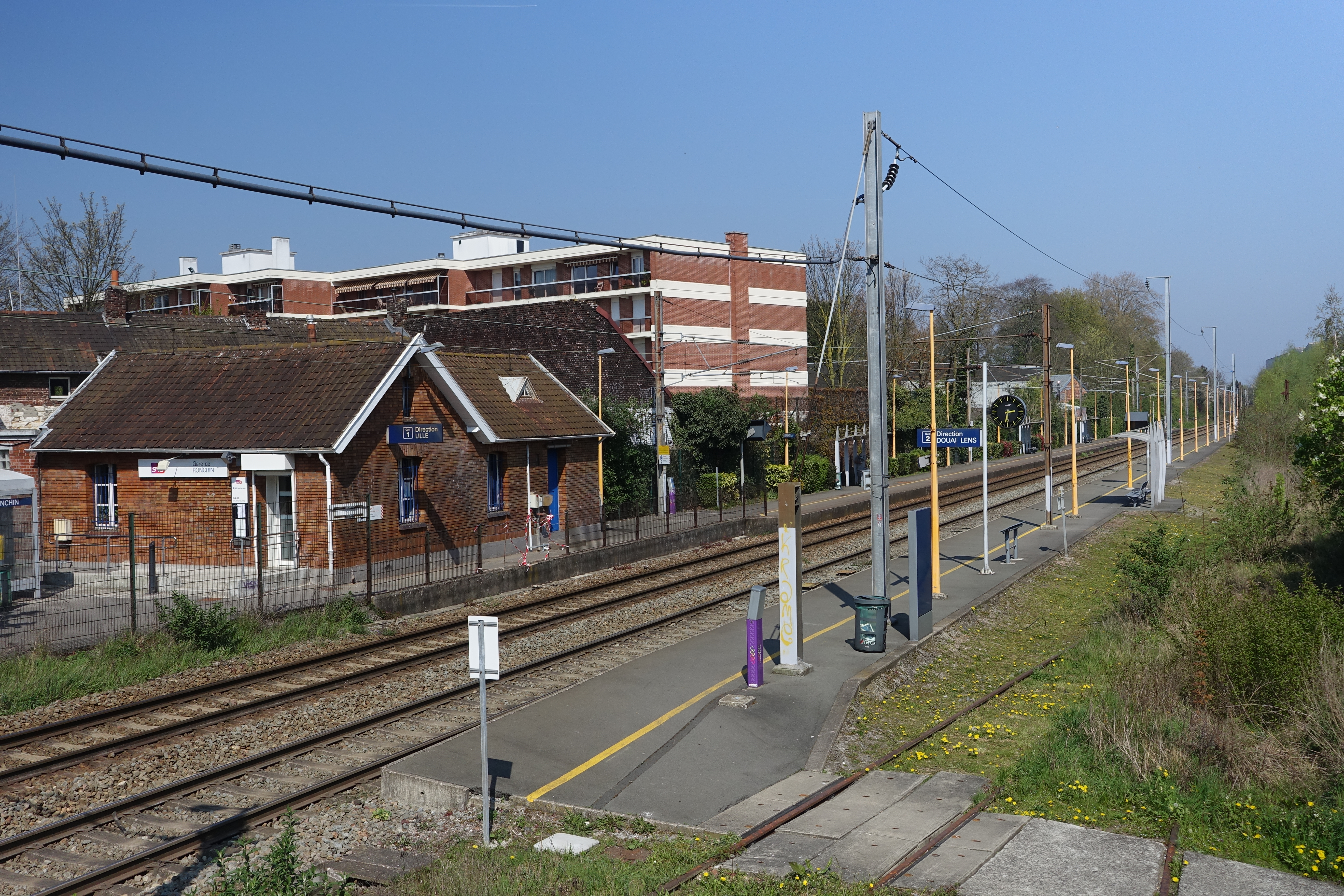 Ronchin station, North departement, France.